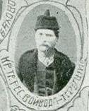 Portrait of IMARO member kapitan Kraste Traykov, Resen region voivoda